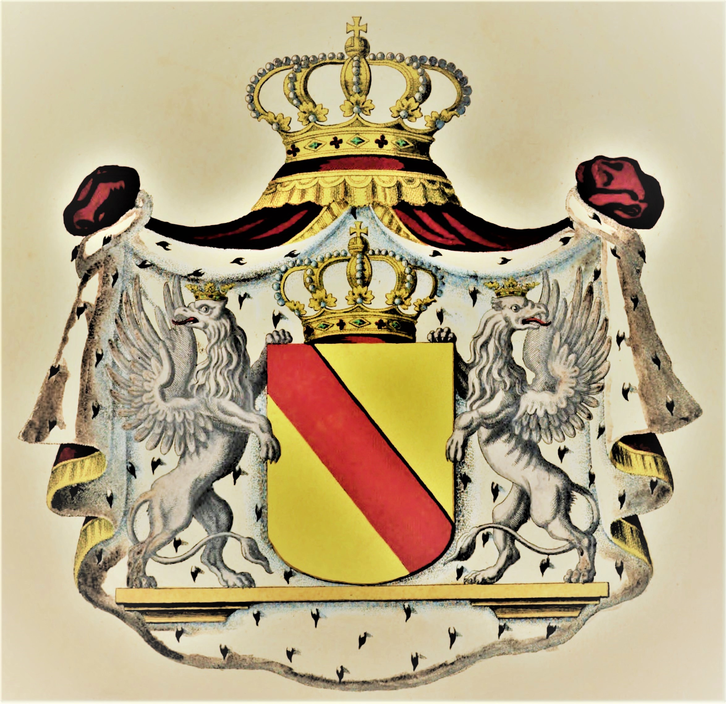 Grand Duchy of Baden